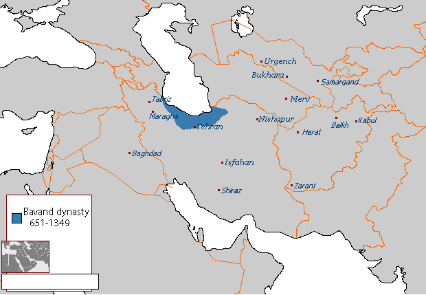 Map of the Bavand dynasty.